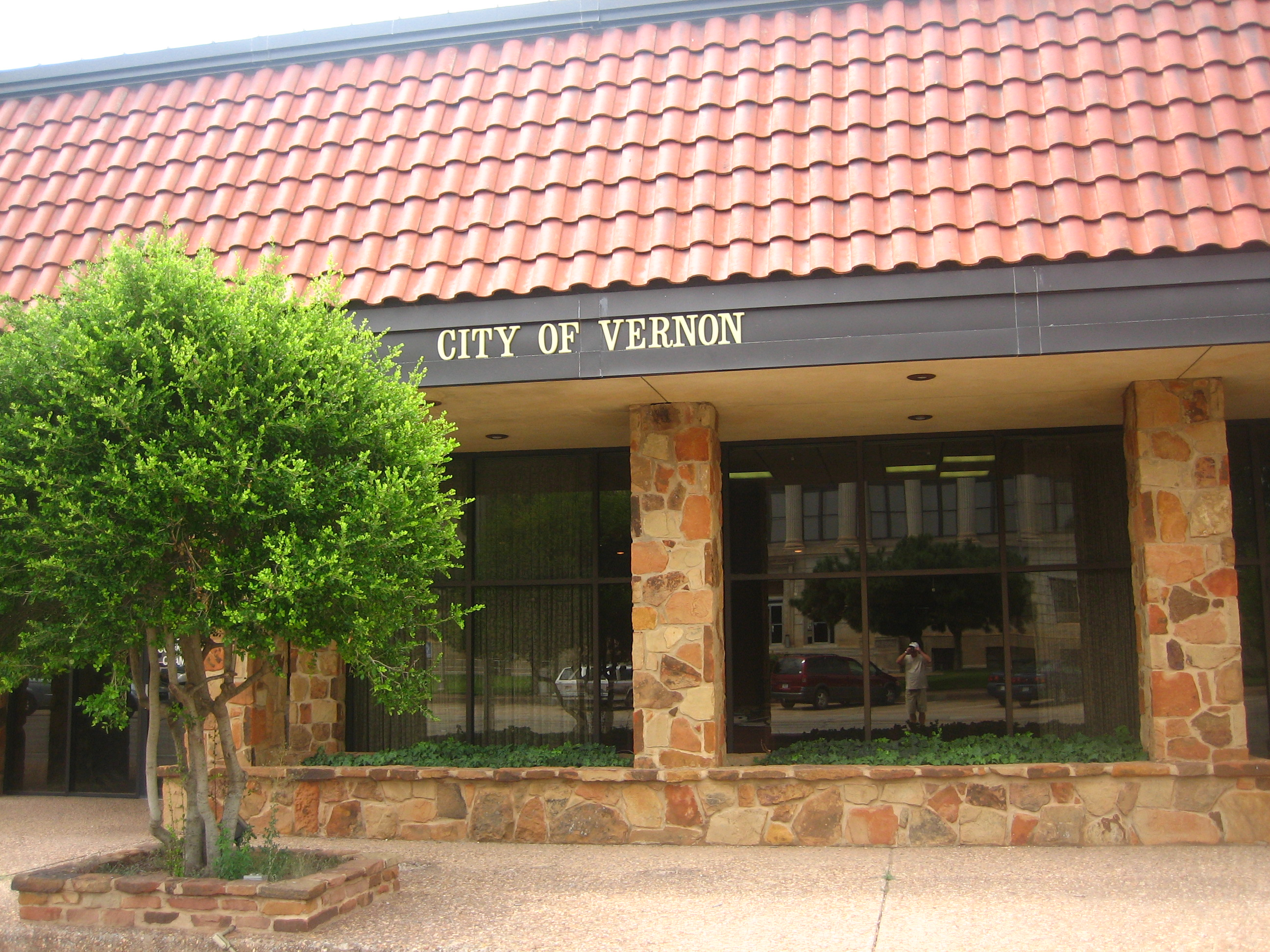 I took photo in July 2008.